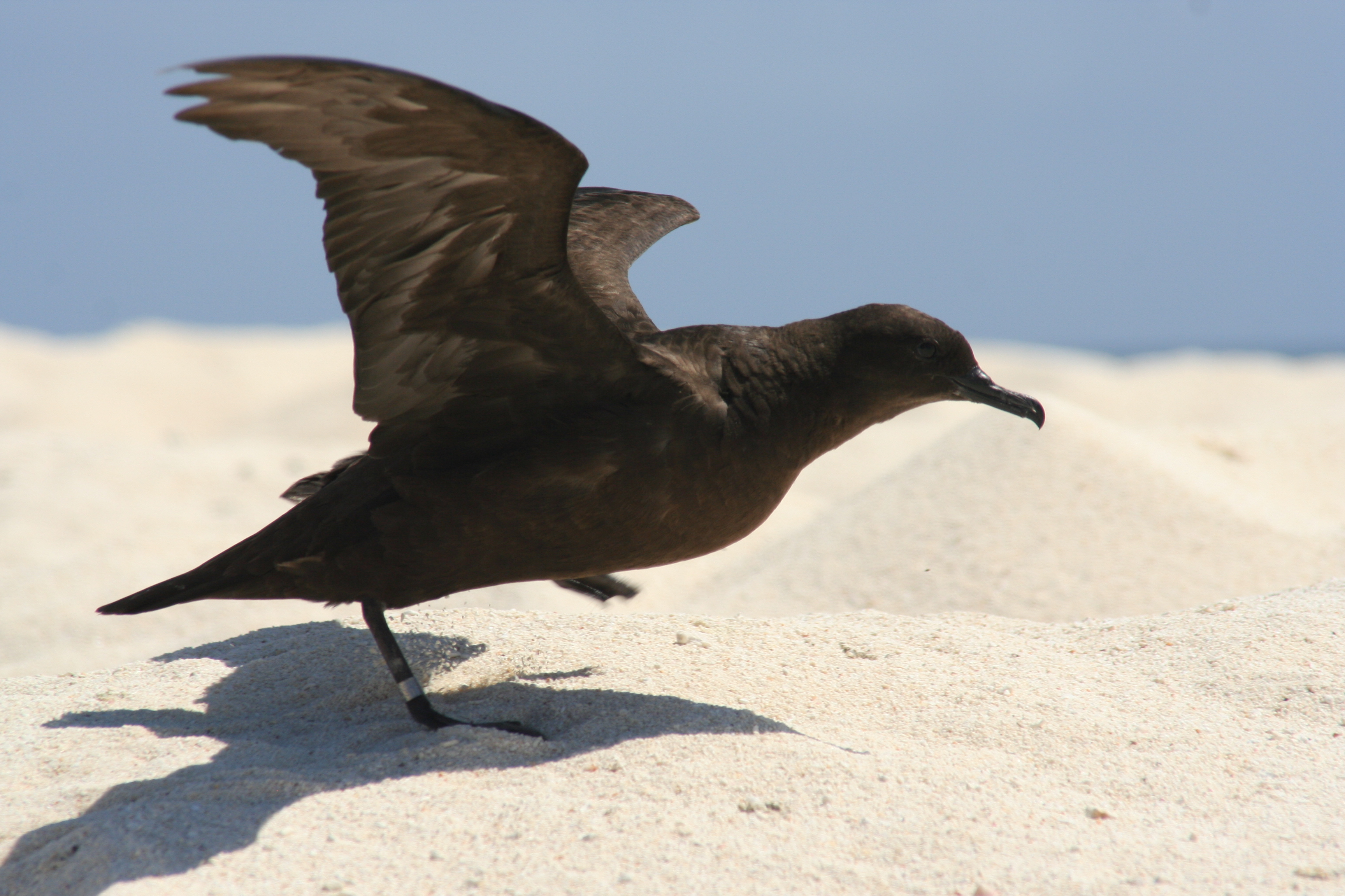 Christams Shearwater Puffinus nativitatis taken on Tern Island, French Frigate Shoals, Hawaii